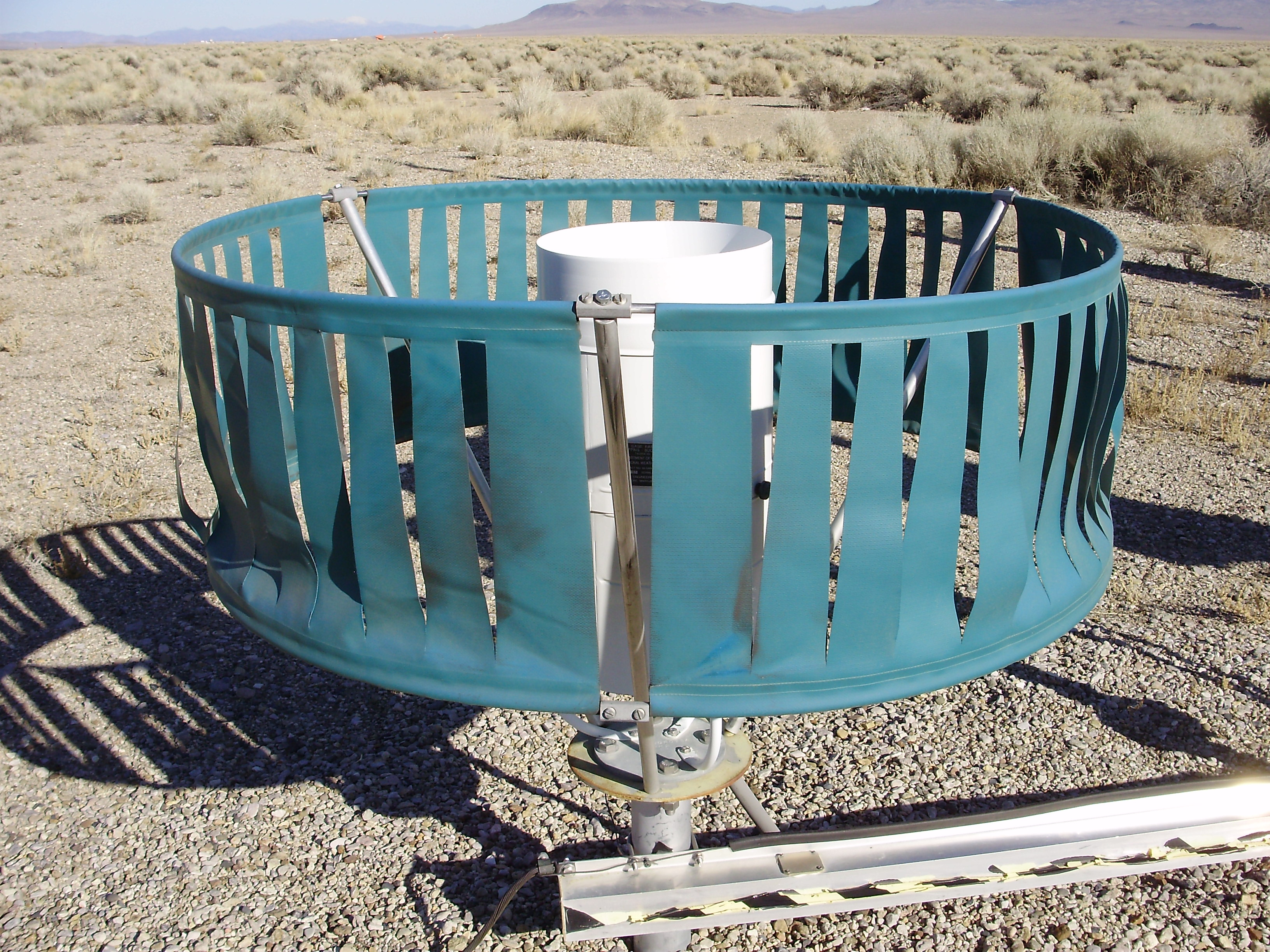 Tonopah Airport ASOS automatic heated tipping bucket precipitation gauge